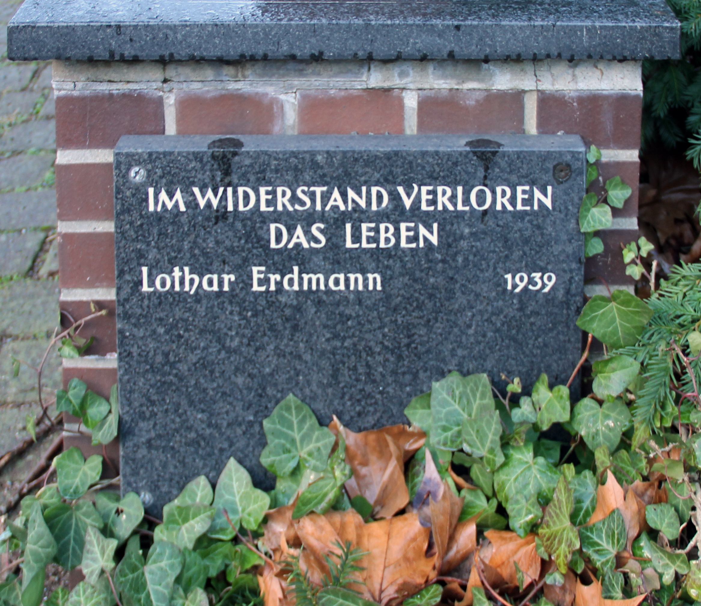 Memorial plaque, Lothar Erdmann, Gottlieb-Dunkel-Straße 27, Berlin-Tempelhof, Deutschland